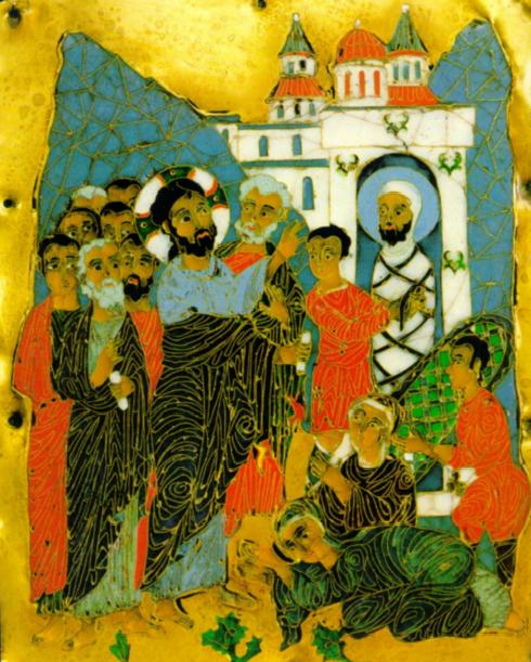 Resurrection of Lazarus. A cloisonné enamel work from Georgia. Now on display at the Museum of Fine Arts in Tbilisi, Georgia.